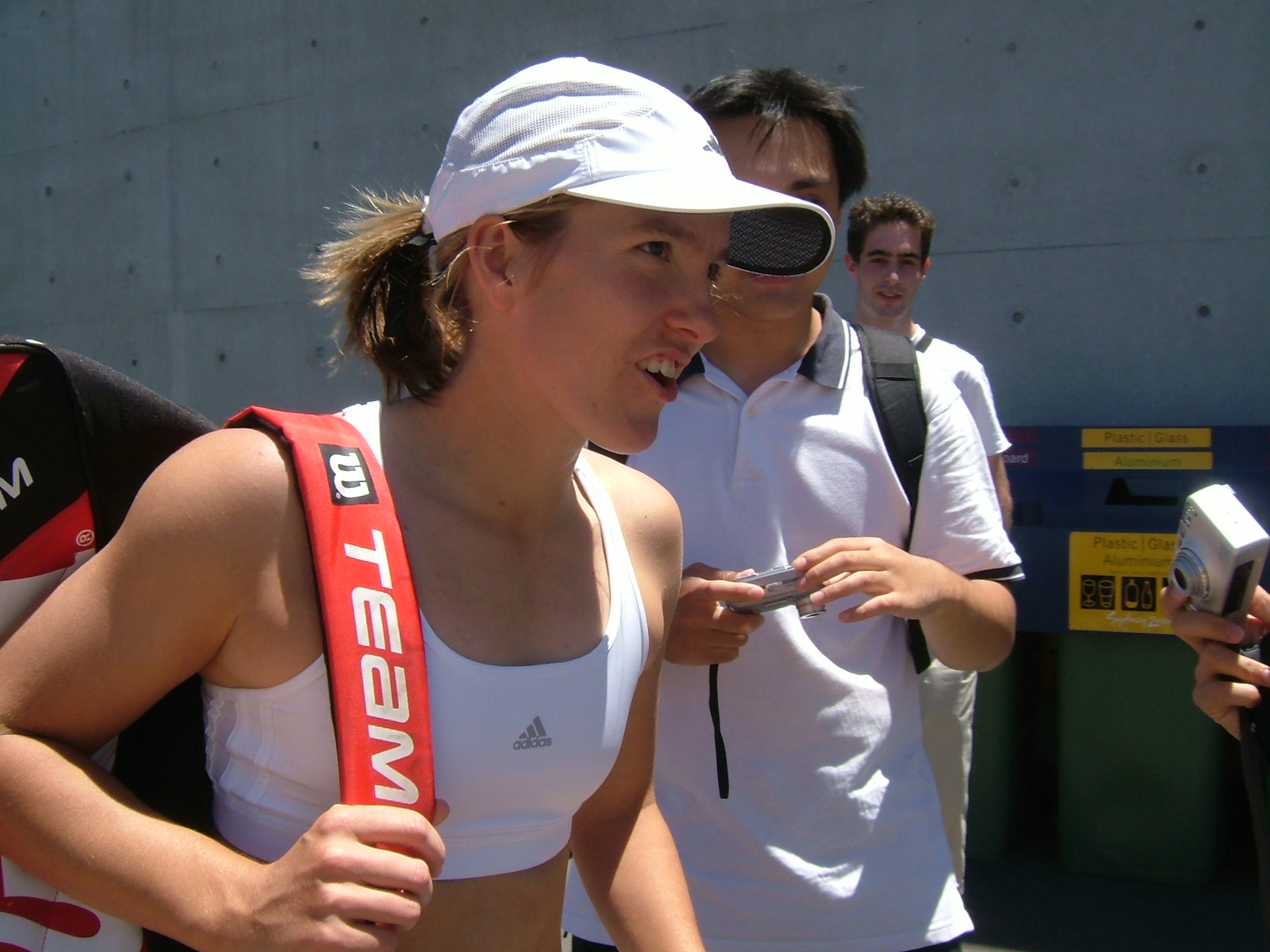 Sydney Tennis Centre at Homebush